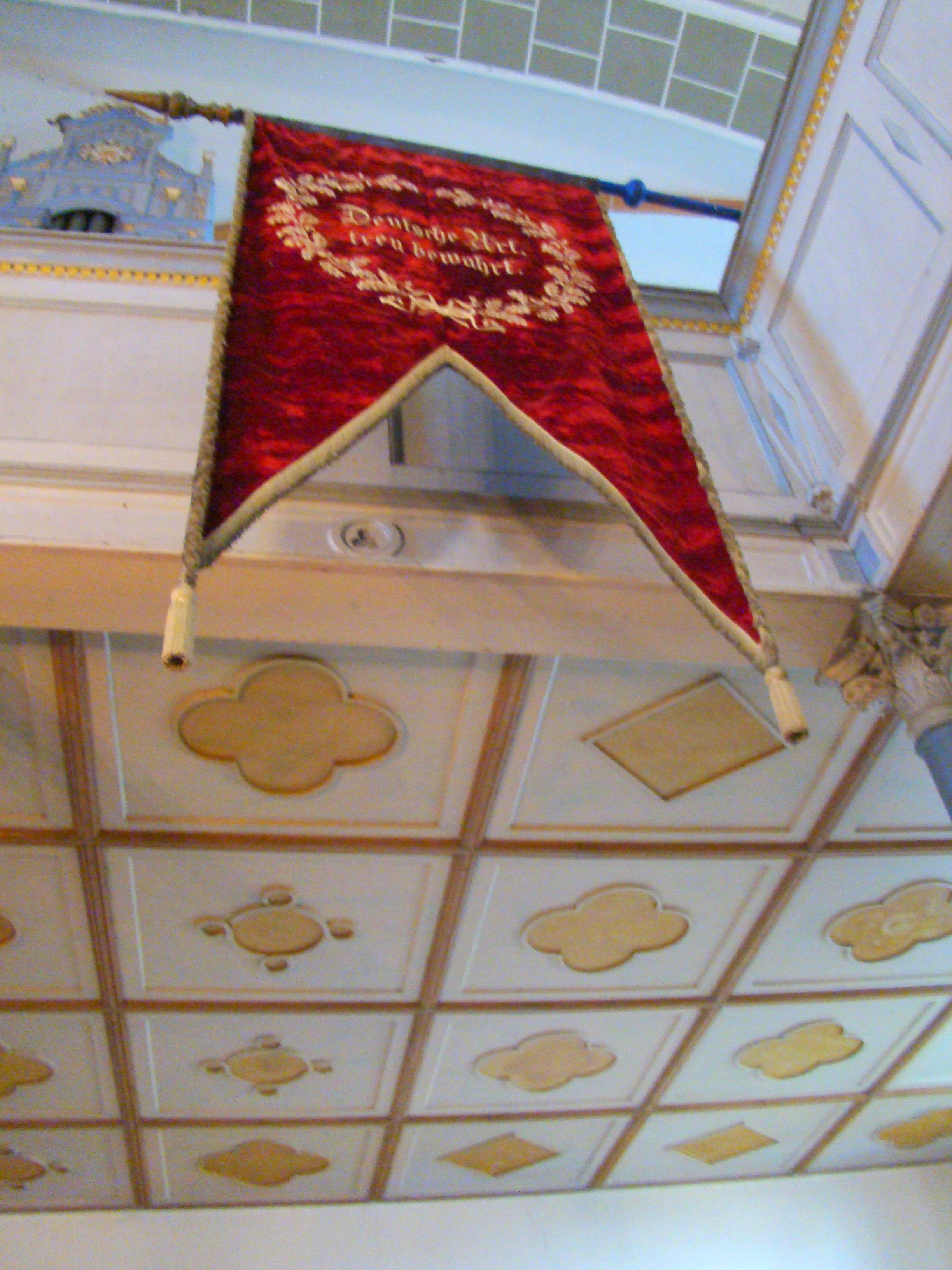 Lutheran church in Lovnic, Brașov County, Romania